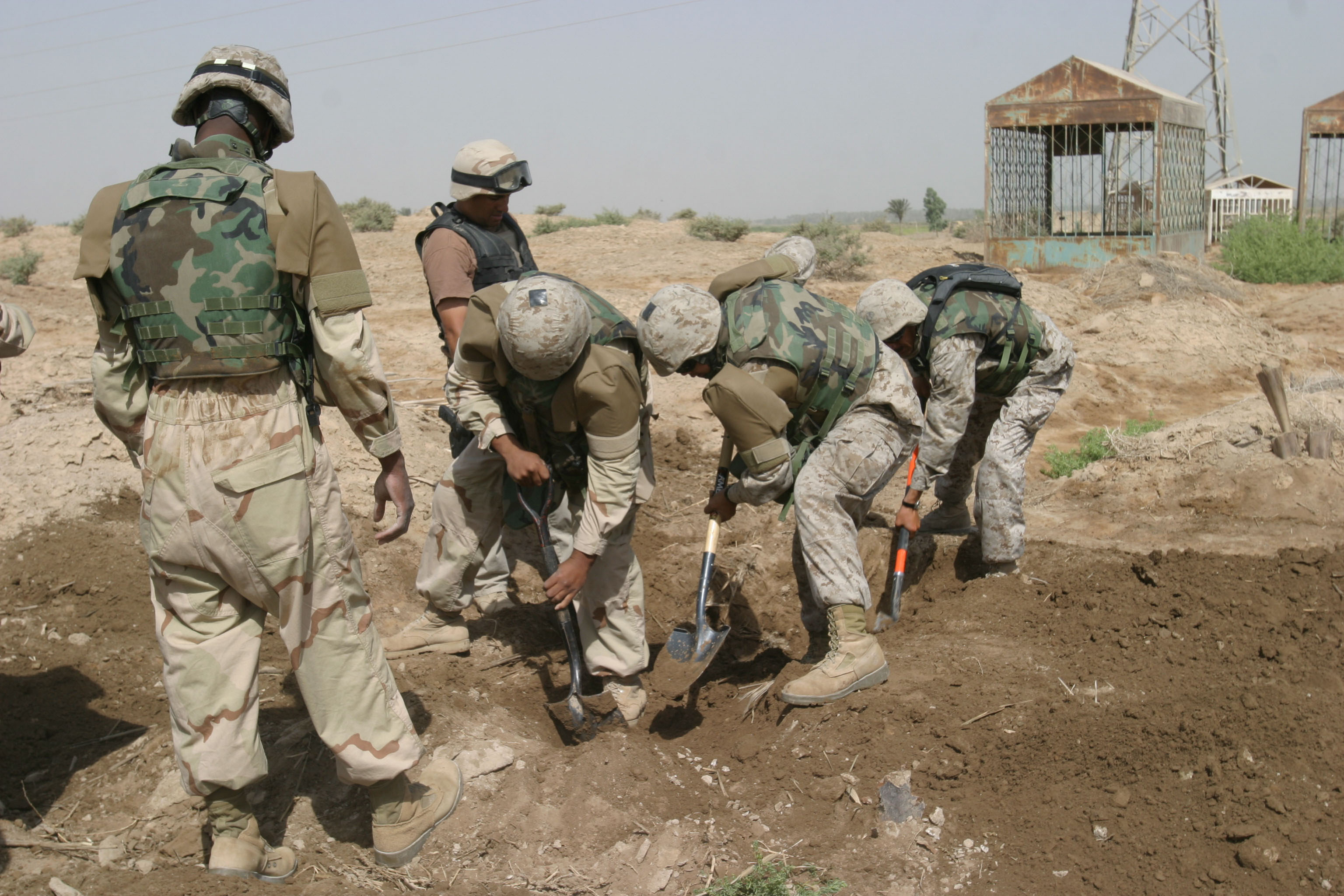 Al Amiriyah, Iraq (July 6, 2005) – Several Naval Criminal Investigation Service (NCIS) agents dig through a grave of an Iraqi, who was killed approximately seven months ago. NCIS is examining the case to better determine the cause of the Iraqi’s death. U.S. Marine Corps photo by Lance Cpl. Michael J O'Brien (RELEASED)